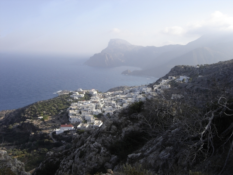 Mesochori, Island of Karpathos, Greece